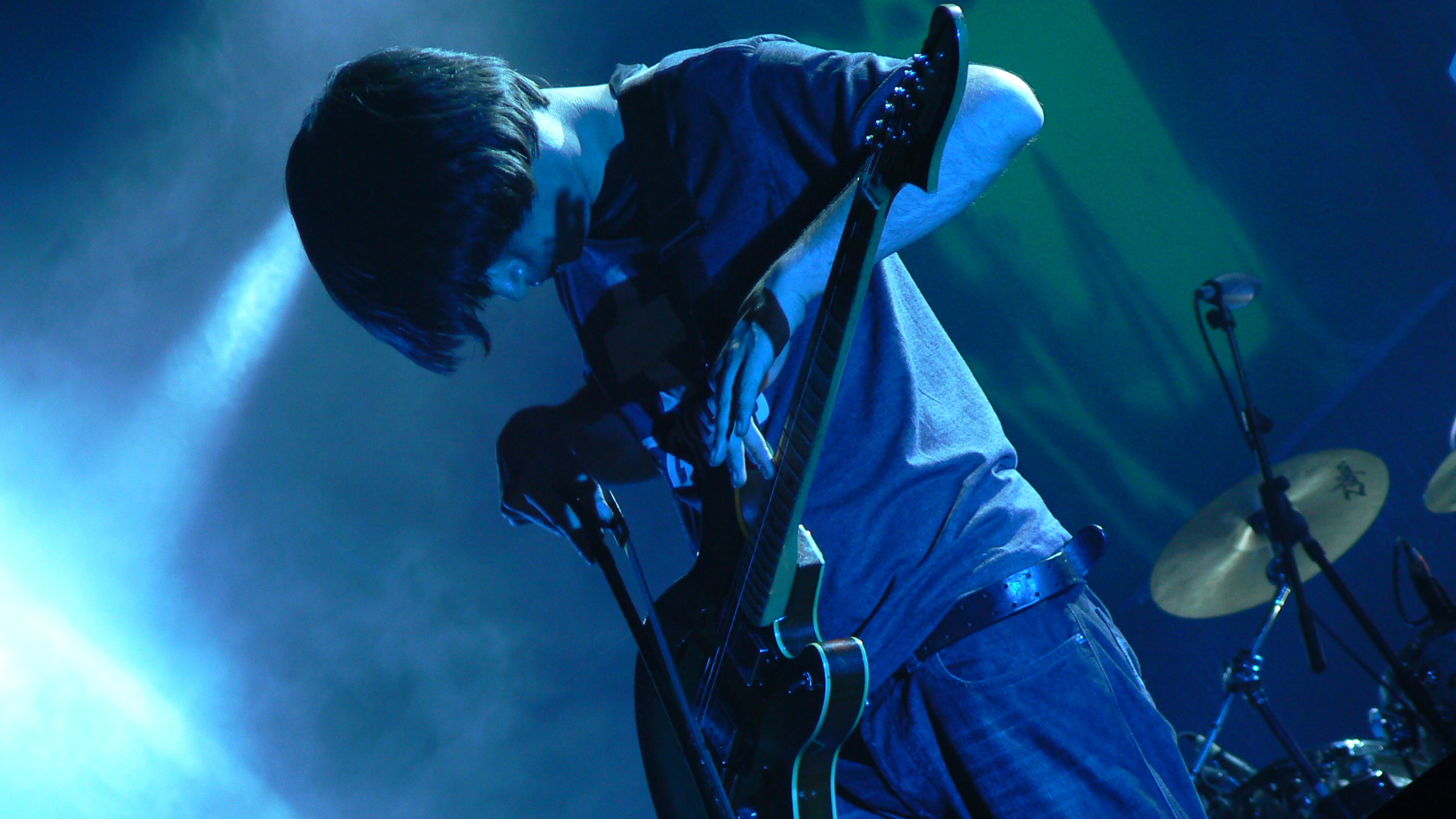 Jonny Greenwood at the Heineken Music Hall on May 9, 2006.